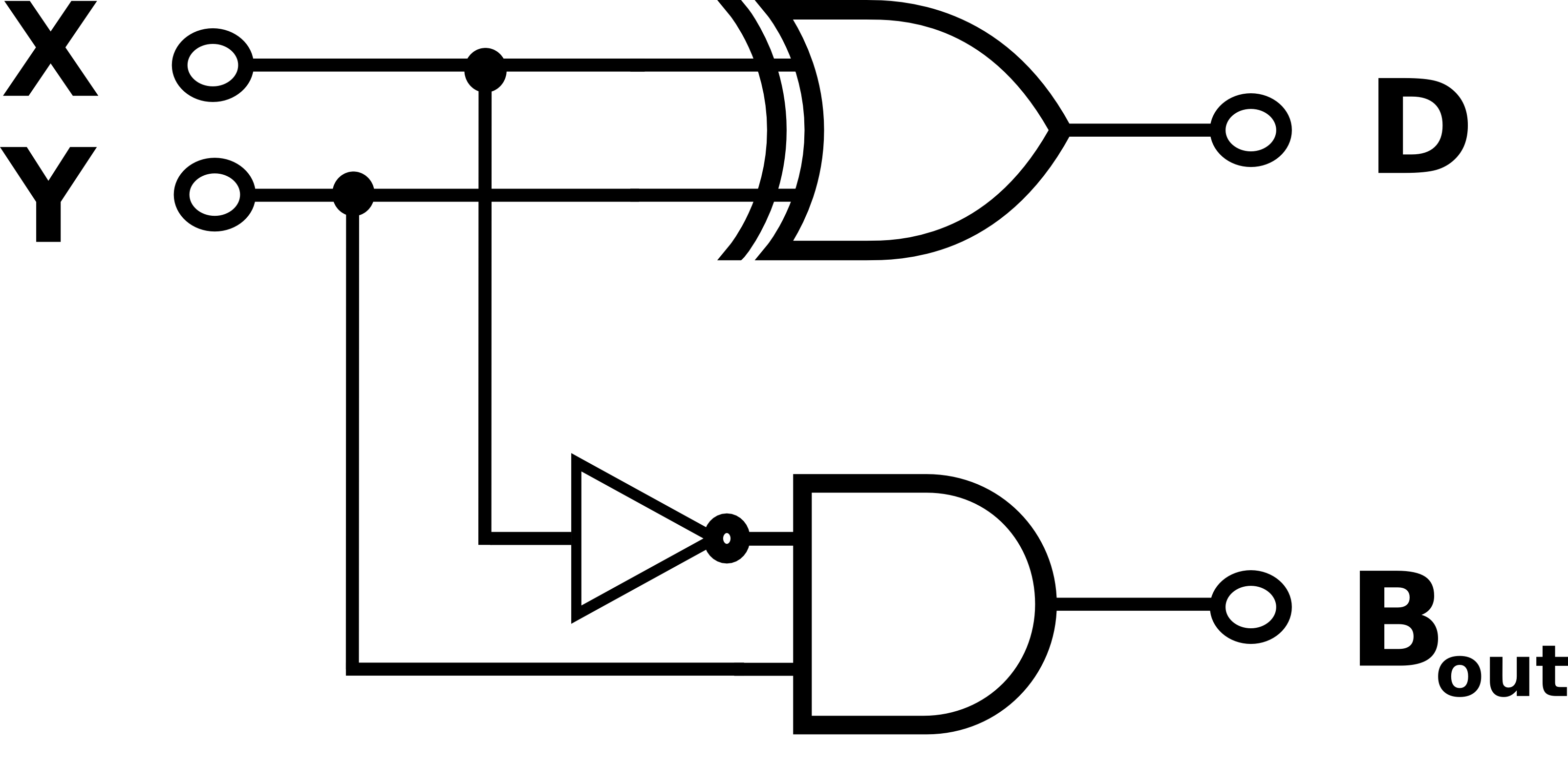 Logic diagram for a half subtractor.